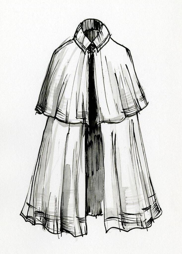 The description of the concept in this drawing is: General term for a form of outerwear of differing lengths and having some shaping. (AAT)